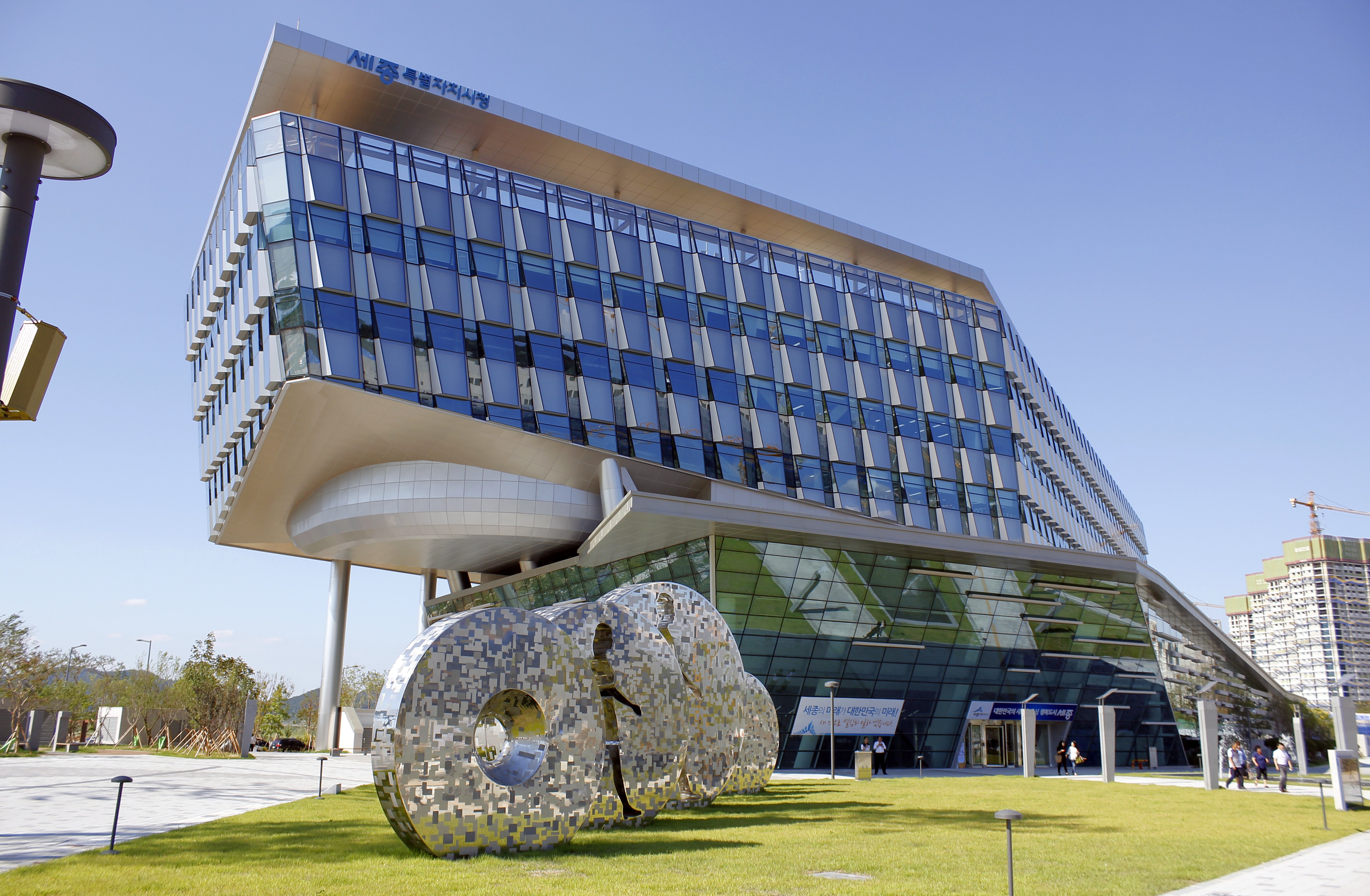 Sejong City Hall, Hannuri-daero, Sejong